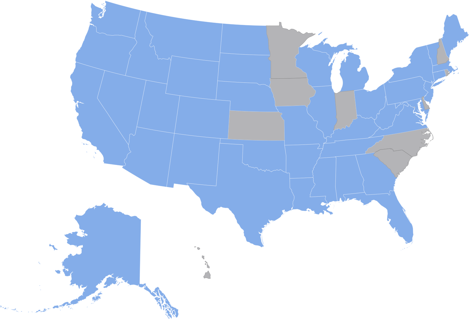 US States that have designated an official State Fossil. Originally uploaded here by User:Gadren.